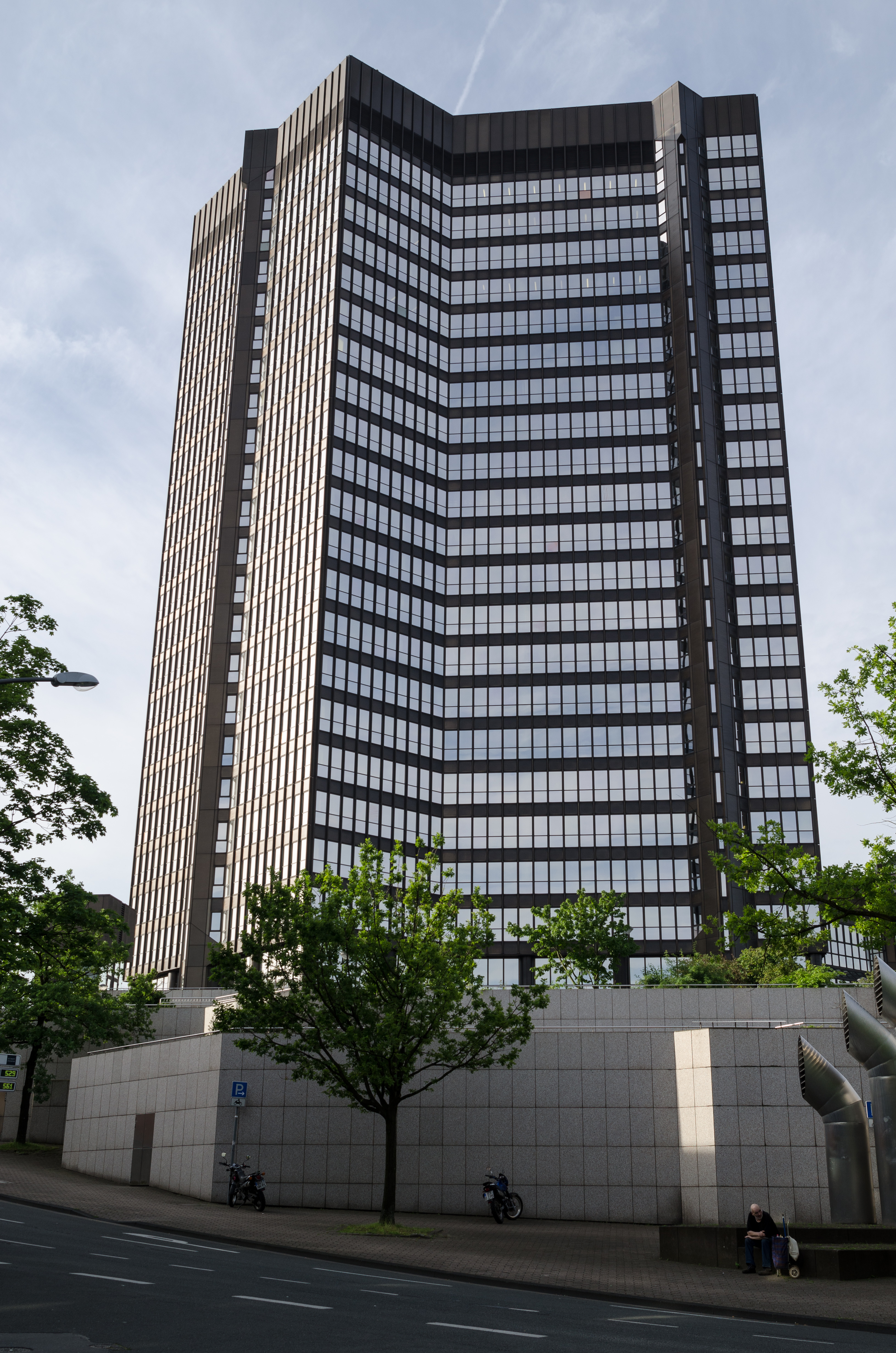 City hall of Essen, Germany.